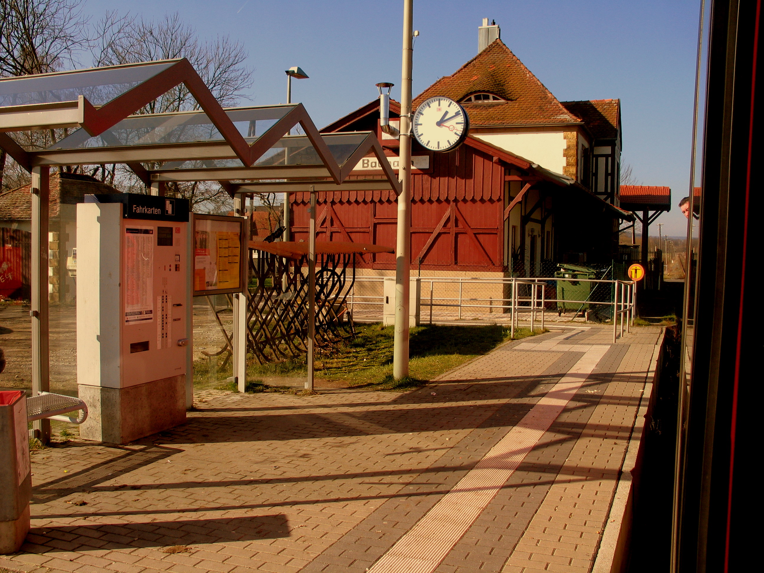 Baunach: Train station. The station building in the background is used for other purposes.